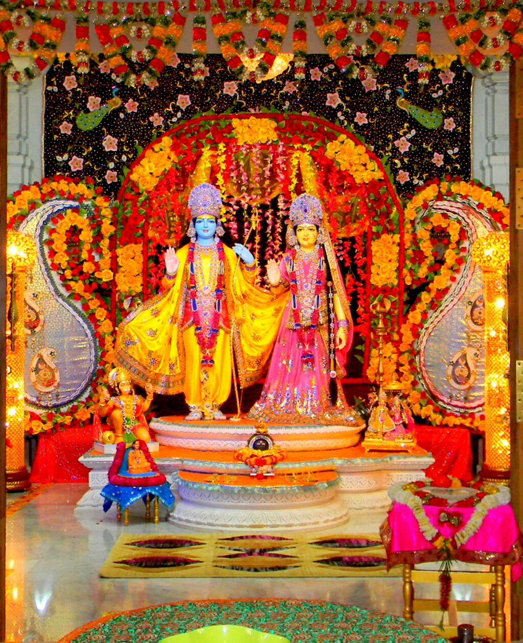 Sita Ram Murti inside Prem Mandir AND Include Sita Ram Pratima